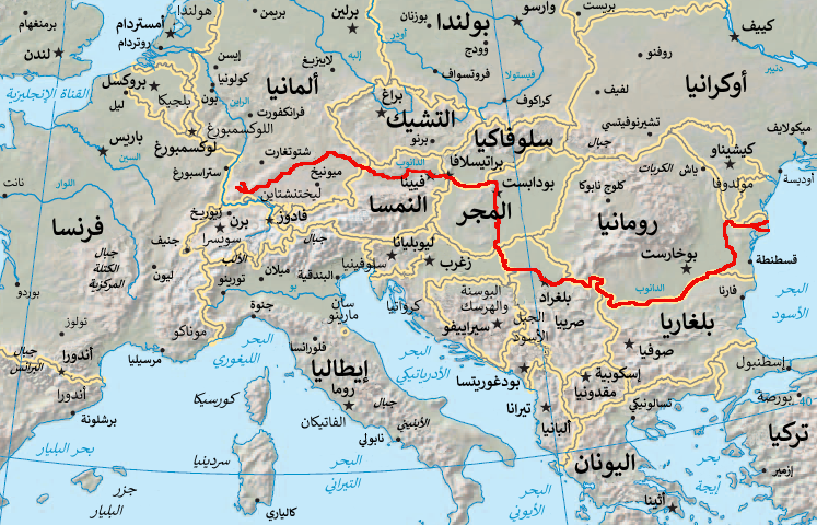 Map showing the flow of the Danube River. Uses the map of Europe from the CIA World Factbook.